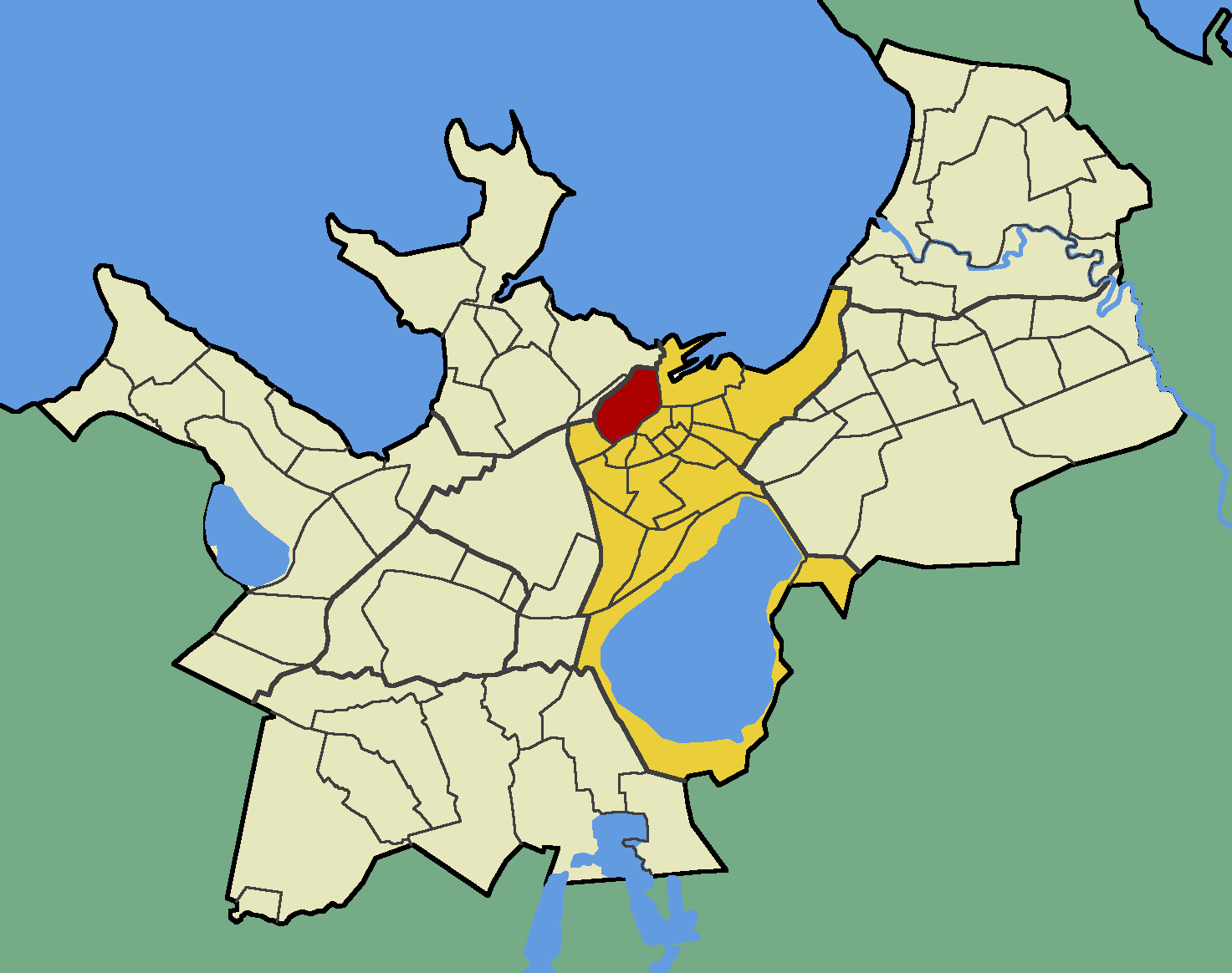 Map of Tallinn (Estonia) with borders of the quarters, Kesklinn district and Vanalinn quarter emphasised